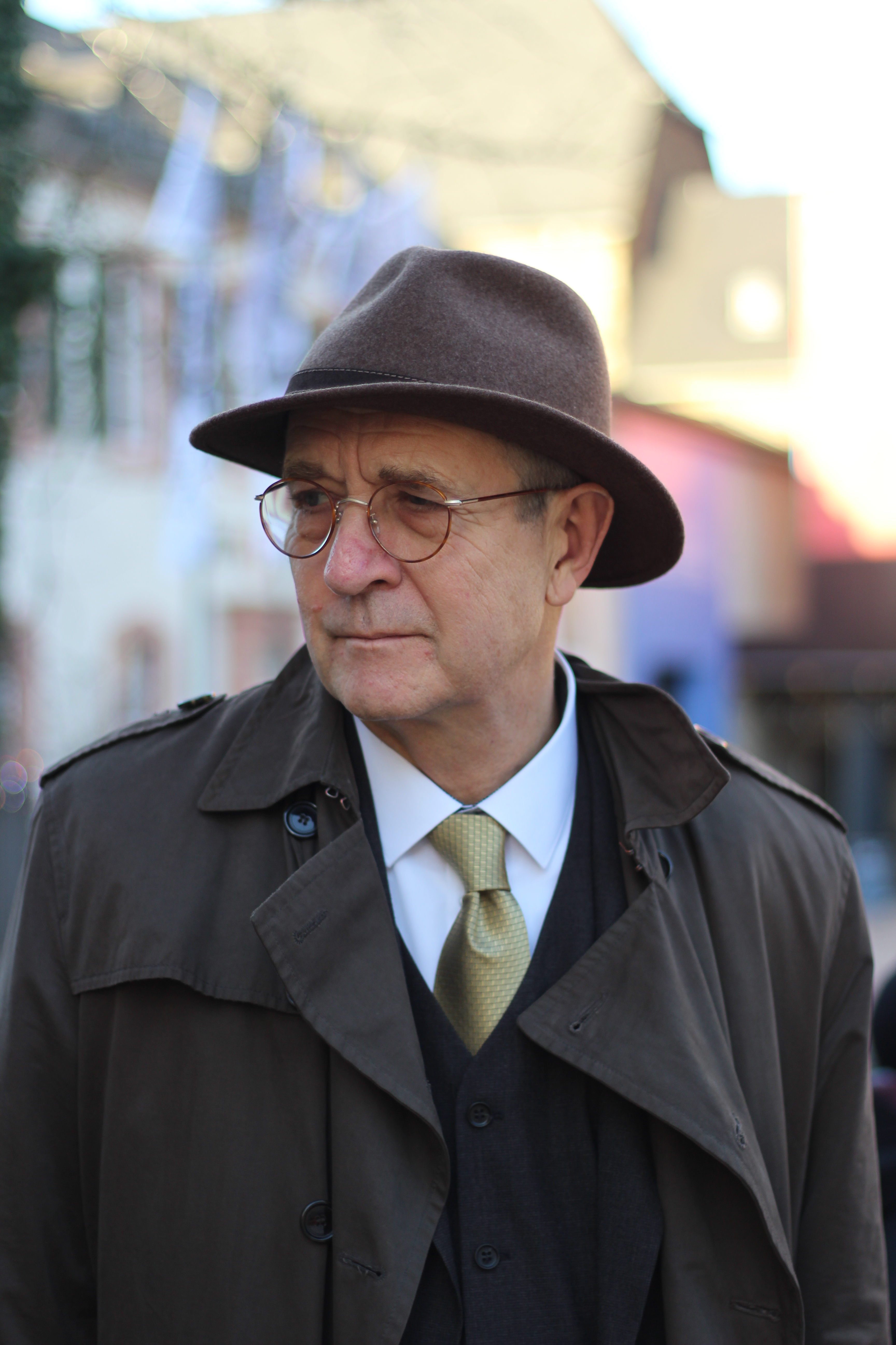 Trier